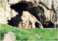 Shpella e madhe